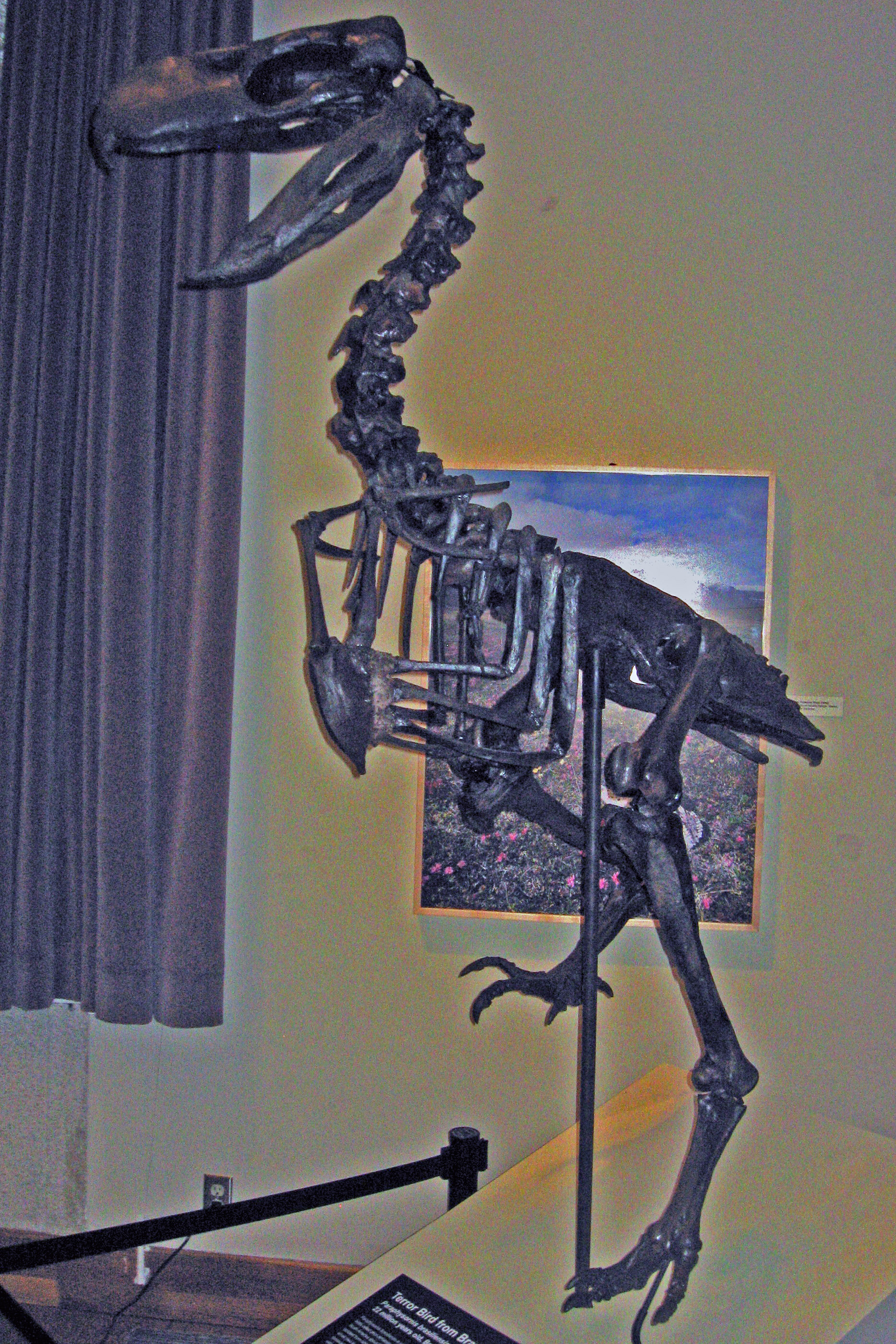 A fossil (cast) of the extinct Paraphysornis brasiliensis from South America. Photographed at Dinoday 2009